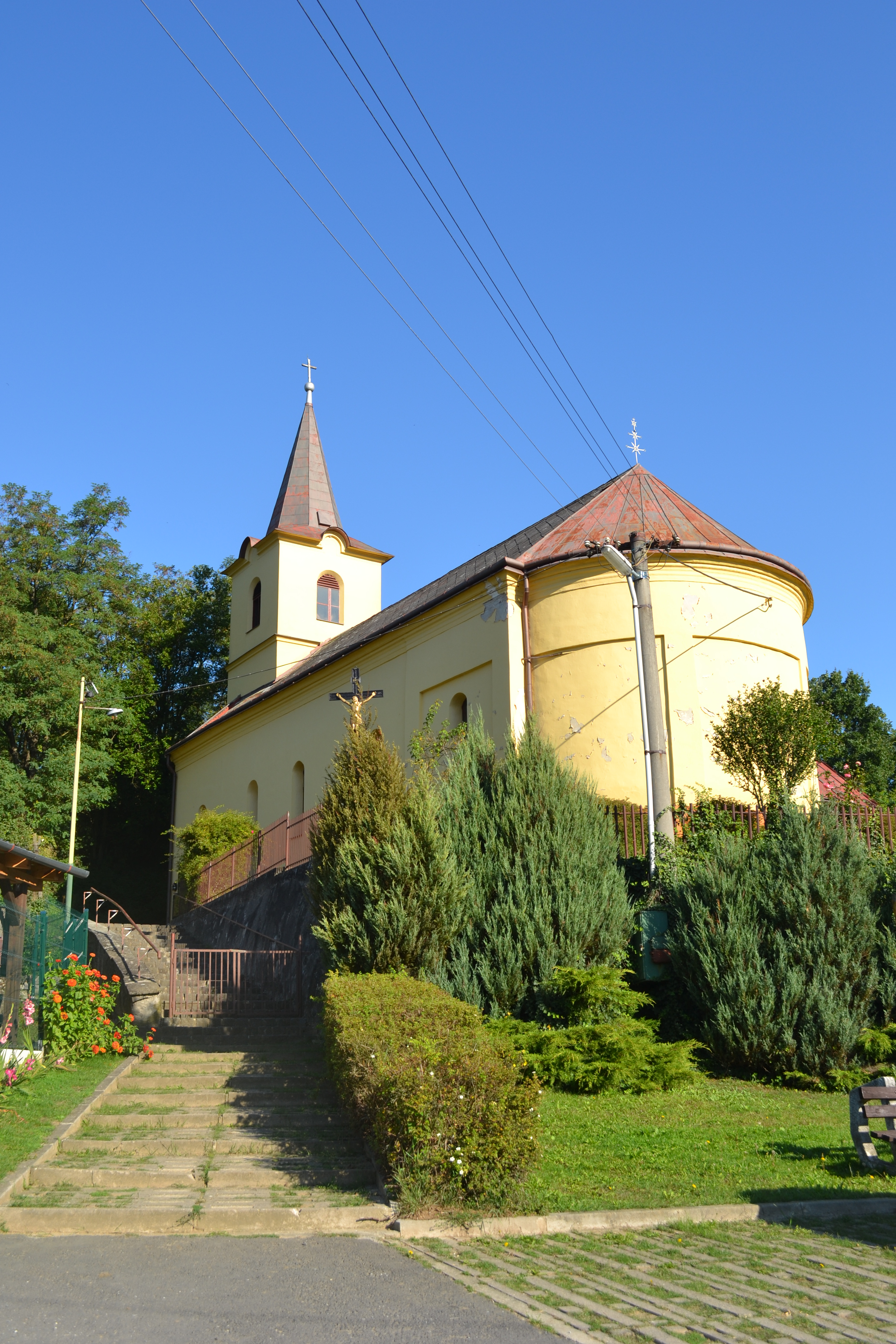 Roman Catholic Church of Mary Magdalene in Blhovce